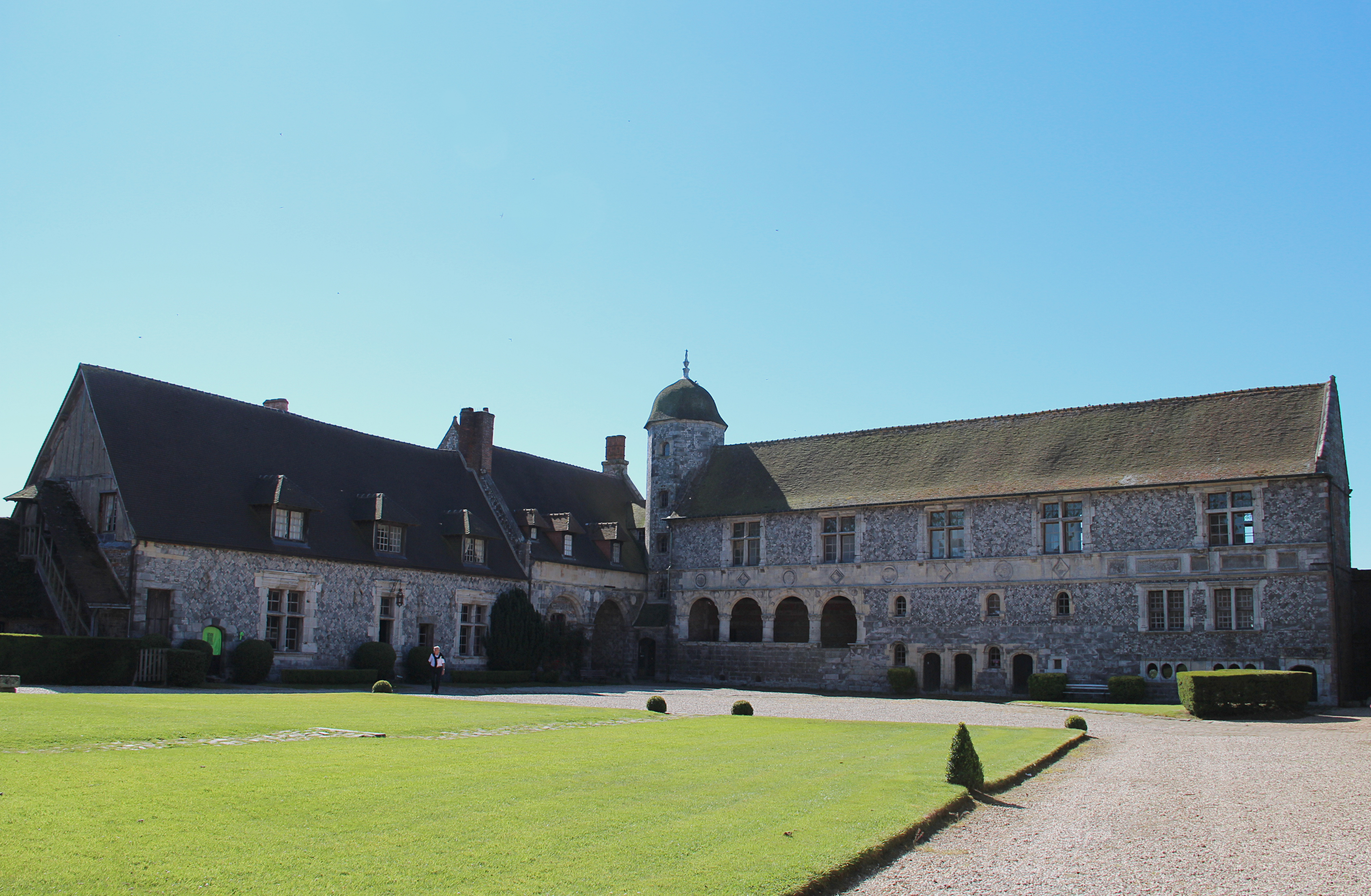 Varengeville-sur-Mer (Seine-Maritime - France), the manor of Ango (1530-1544).